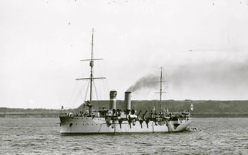 Imperial Russian minelaiyer Enisey.